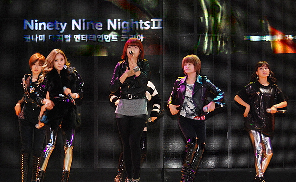 T-ara at Xbox360 invitational 2009